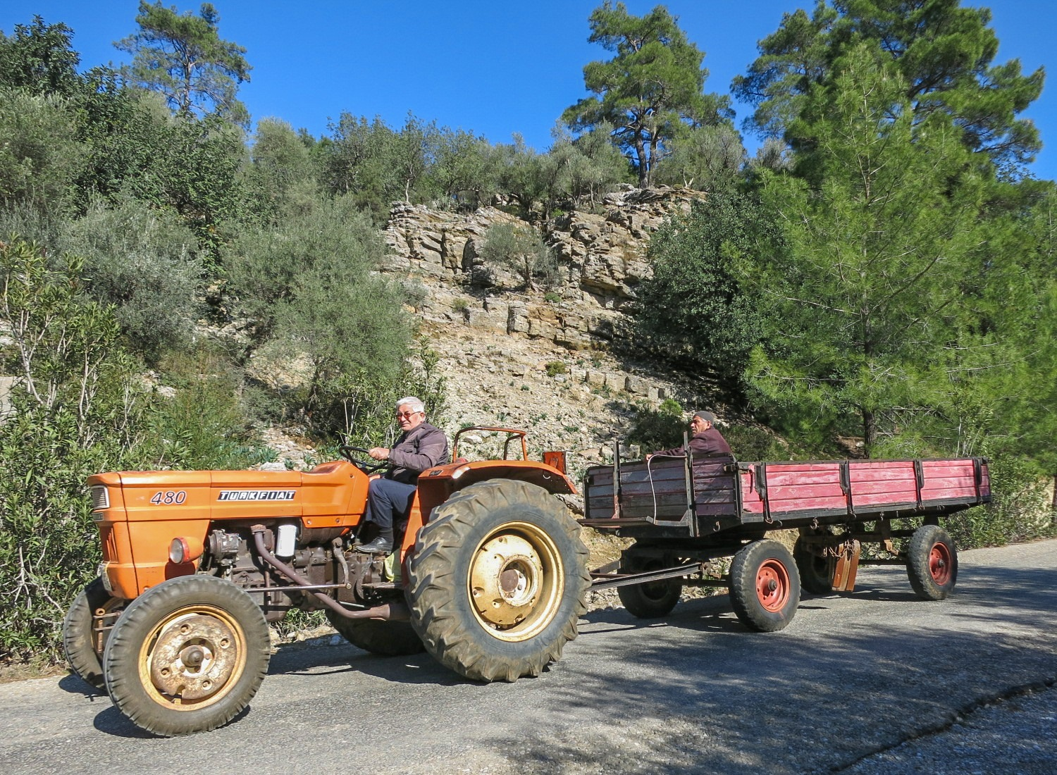 Türk Fiat 480 tractor in Antalya Province (Turkey)